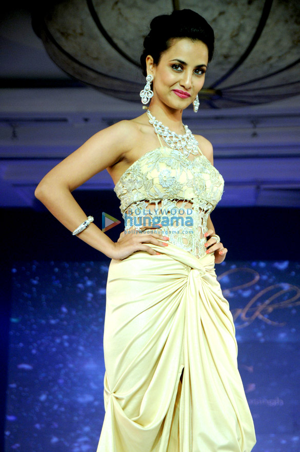 Tia Bajpai at Celebs walk the ramp at Glamour Style Walk 2013, in J. W. Marriott, Juhu, Mumbai.